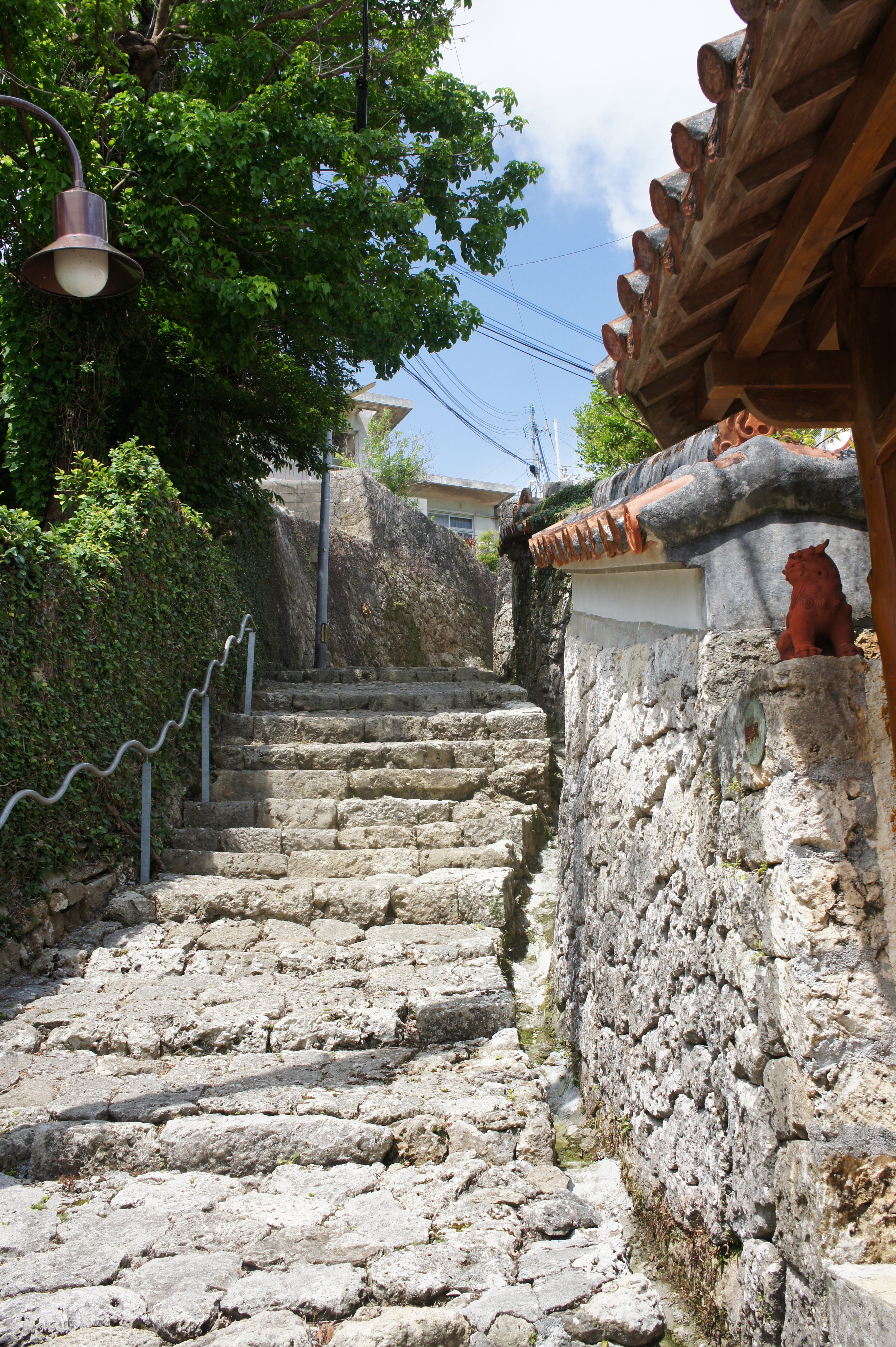 Shuri Kinjocho-ishidatami-michi in Naha, Okinawa prefecture, Japan